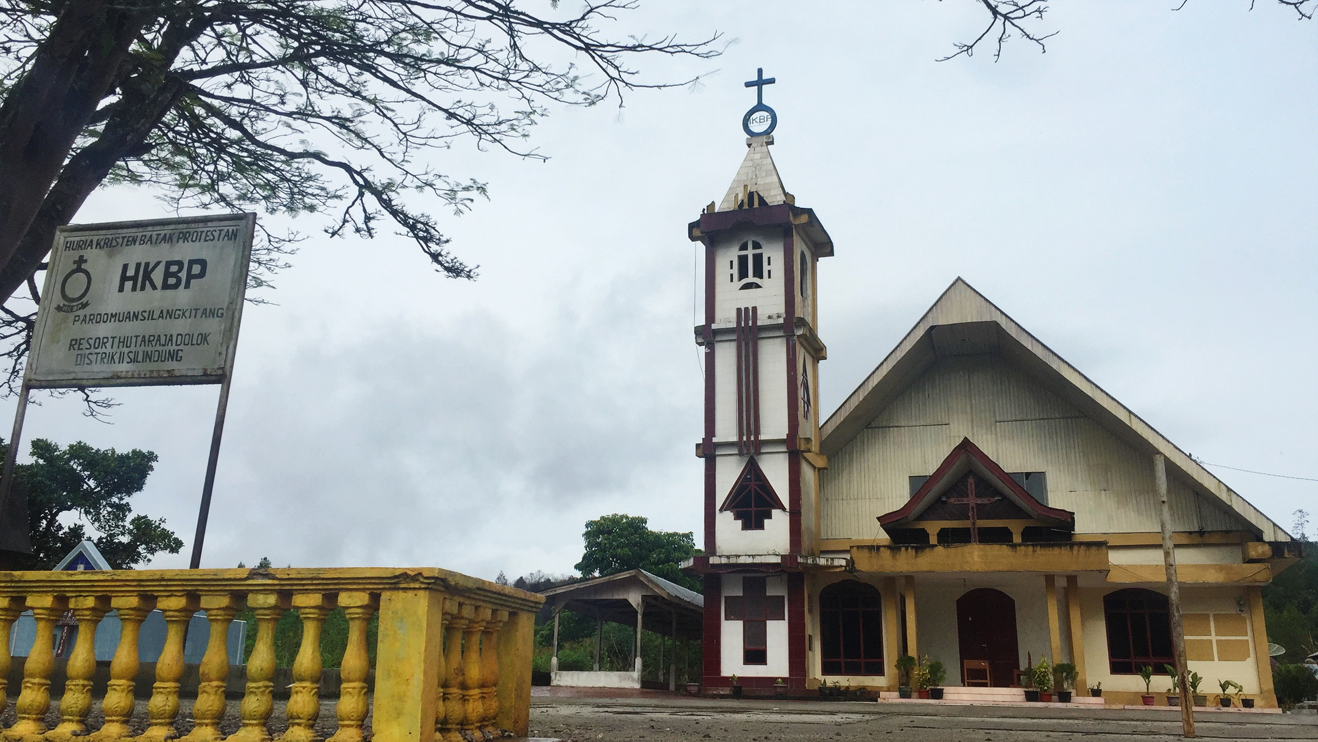 HKBP Pardomuan Silangkitang, Church in Silangkitang, Sipoholon, North Tapanuli